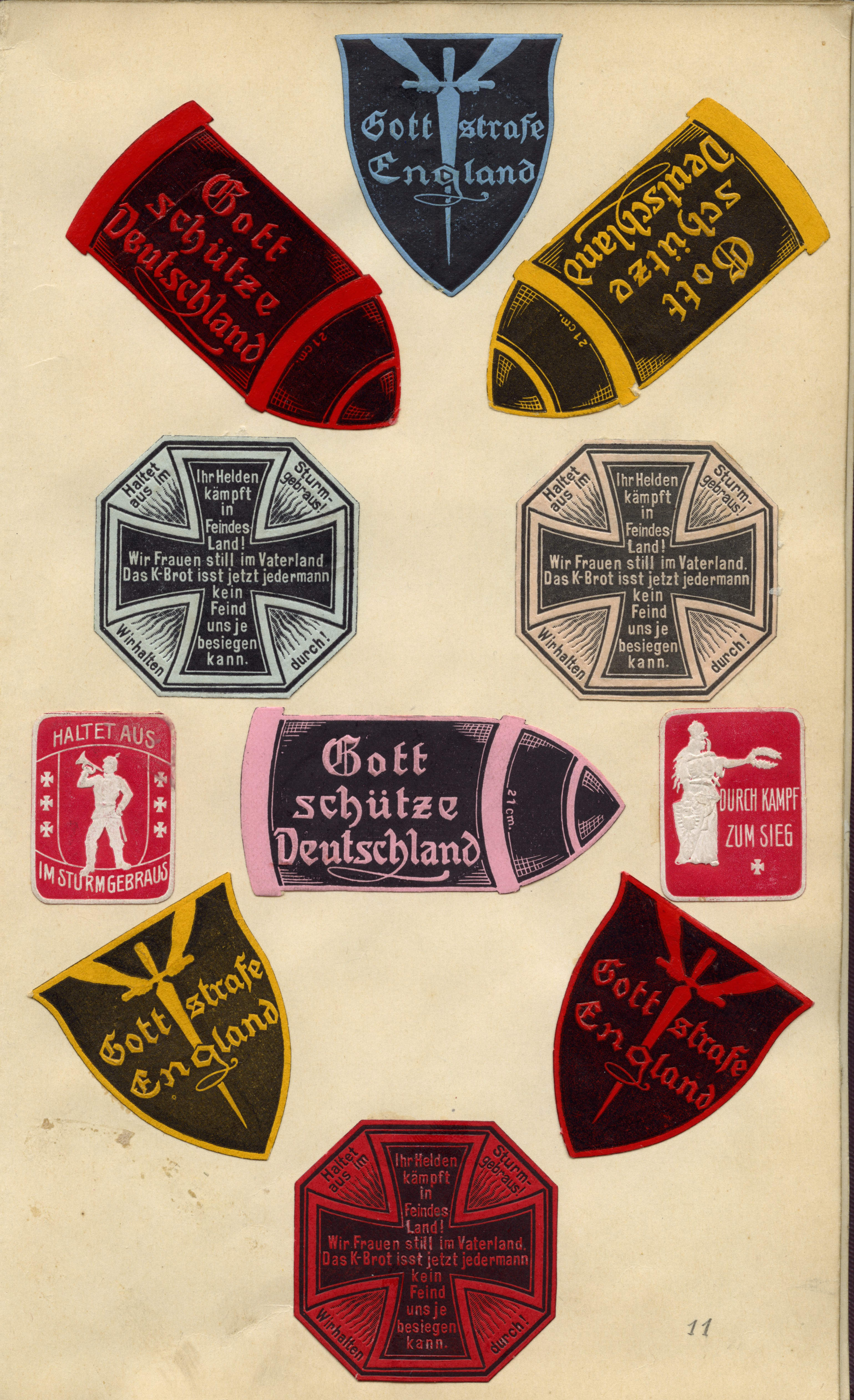 Austrian or German Propaganda stamps from World War I